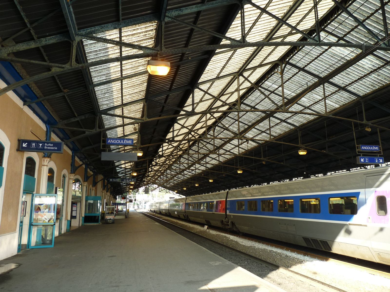 Station of Angoulême, Charente, SW France